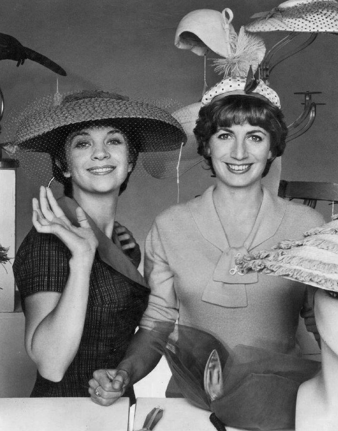 Photo of Cindy Williams as Shirley and Penny Marshall as Laverne from the television program Laverne and Shirley.